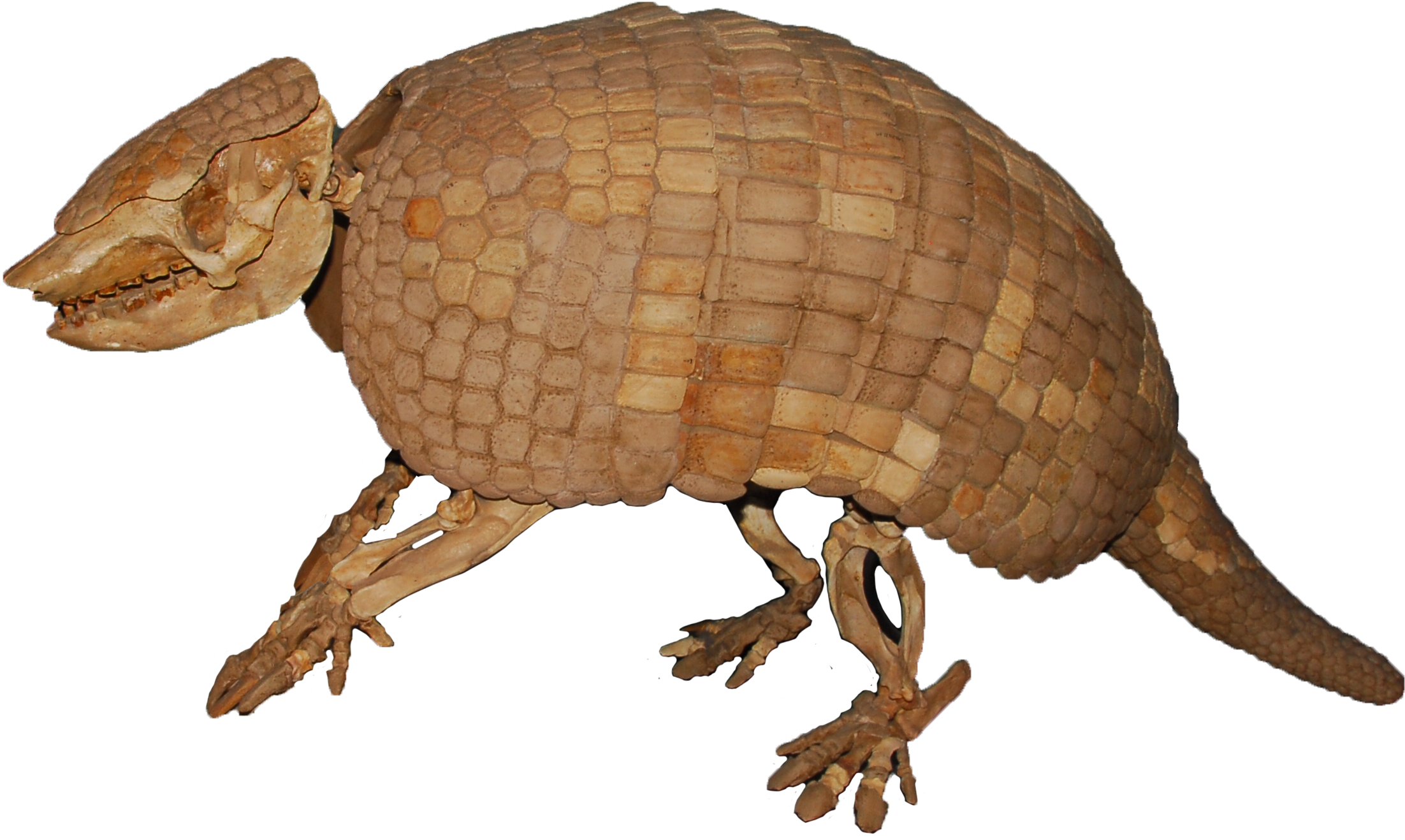 Holmesina floridanus cast skeleton produced and distributed by Triebold Paleontology Incorporated